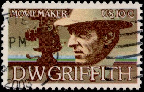 Stamp owned by Swollib